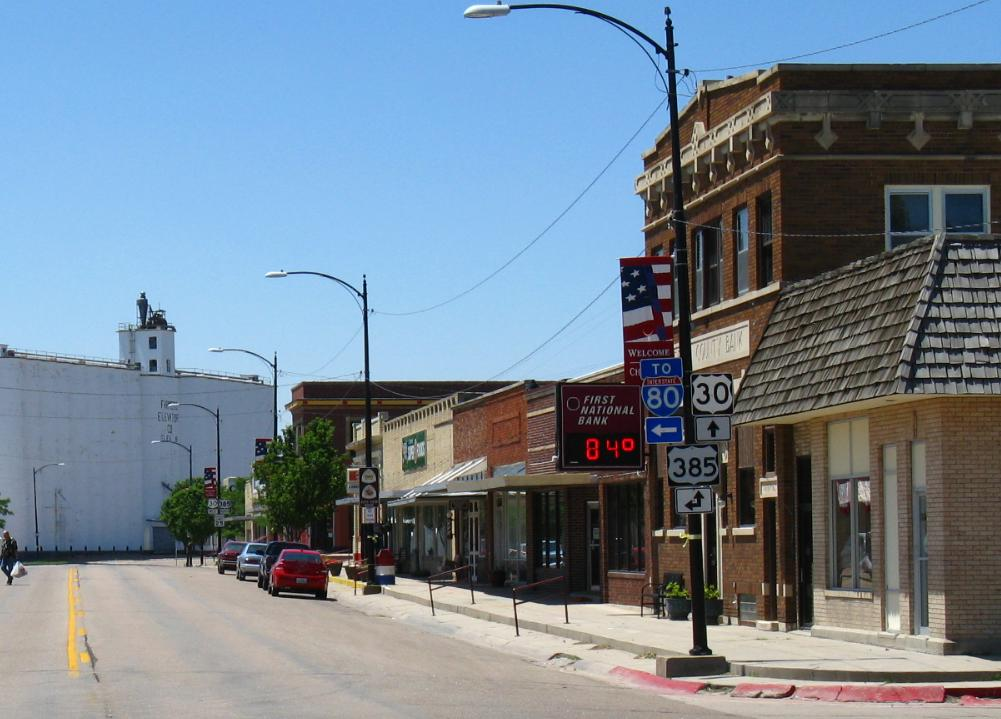 700 block of 2nd St (US 30) in Chappell, Nebraska